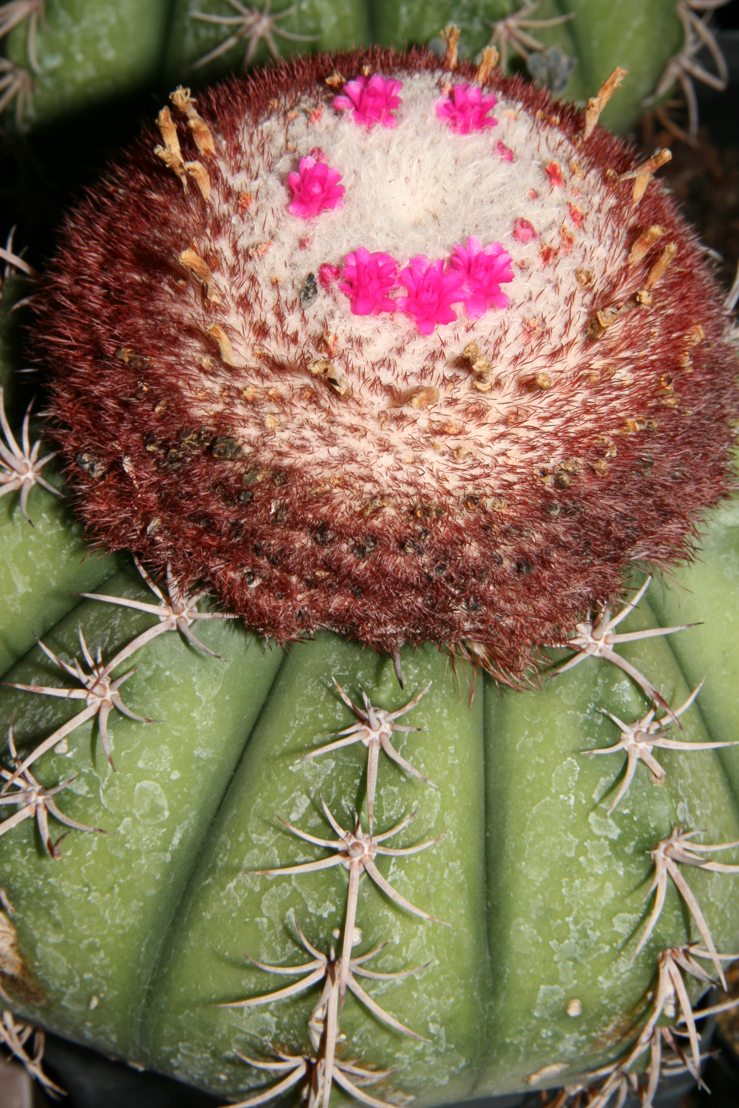 holytpe specimen, C Bahia, Brasil